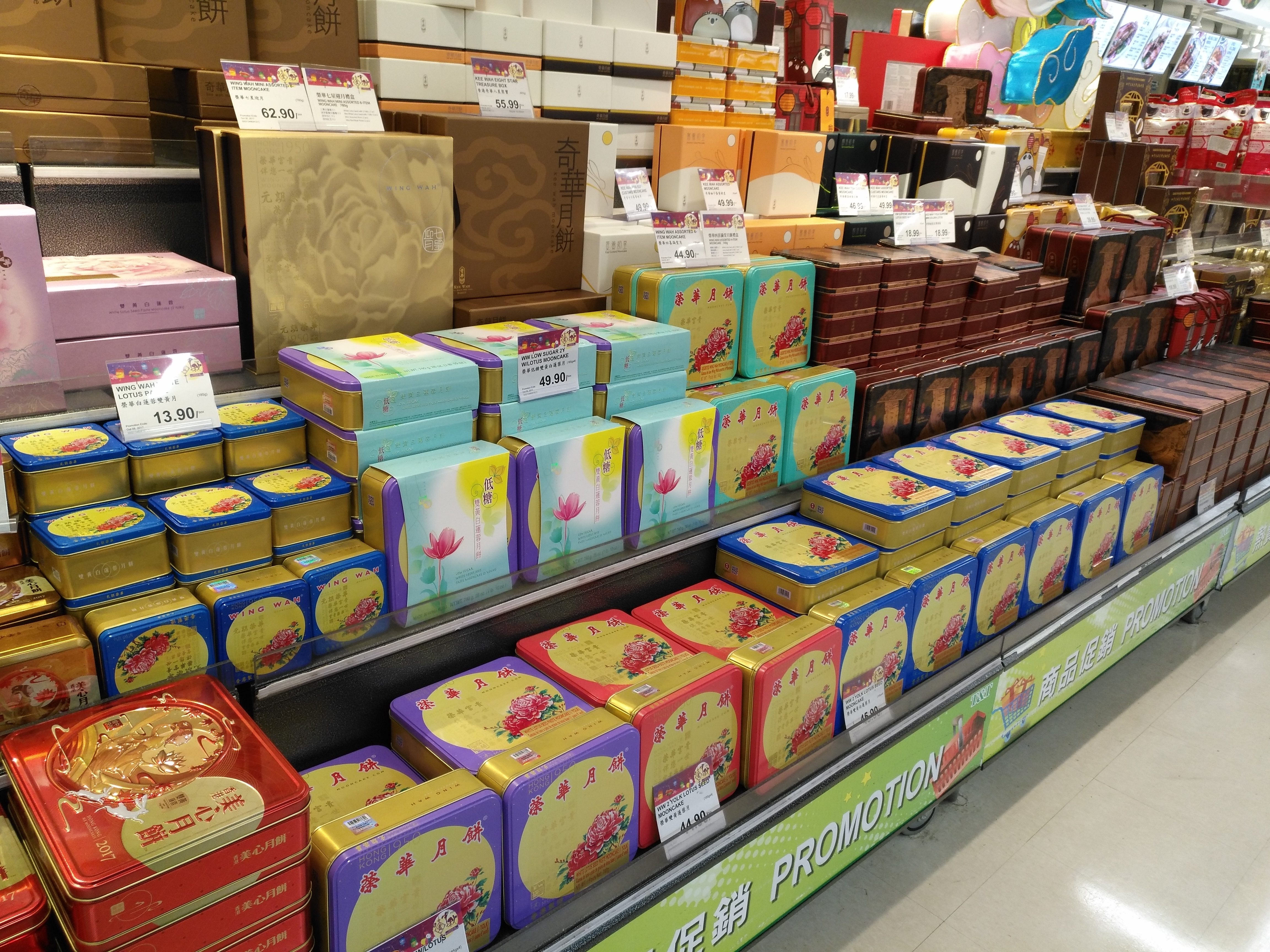 Various kinds of Wing Wah Moon Cake, which manufacture by Hong Kong Wing Wah, are on the shelf in the supermarket at Coquitlam, BC, Canada.